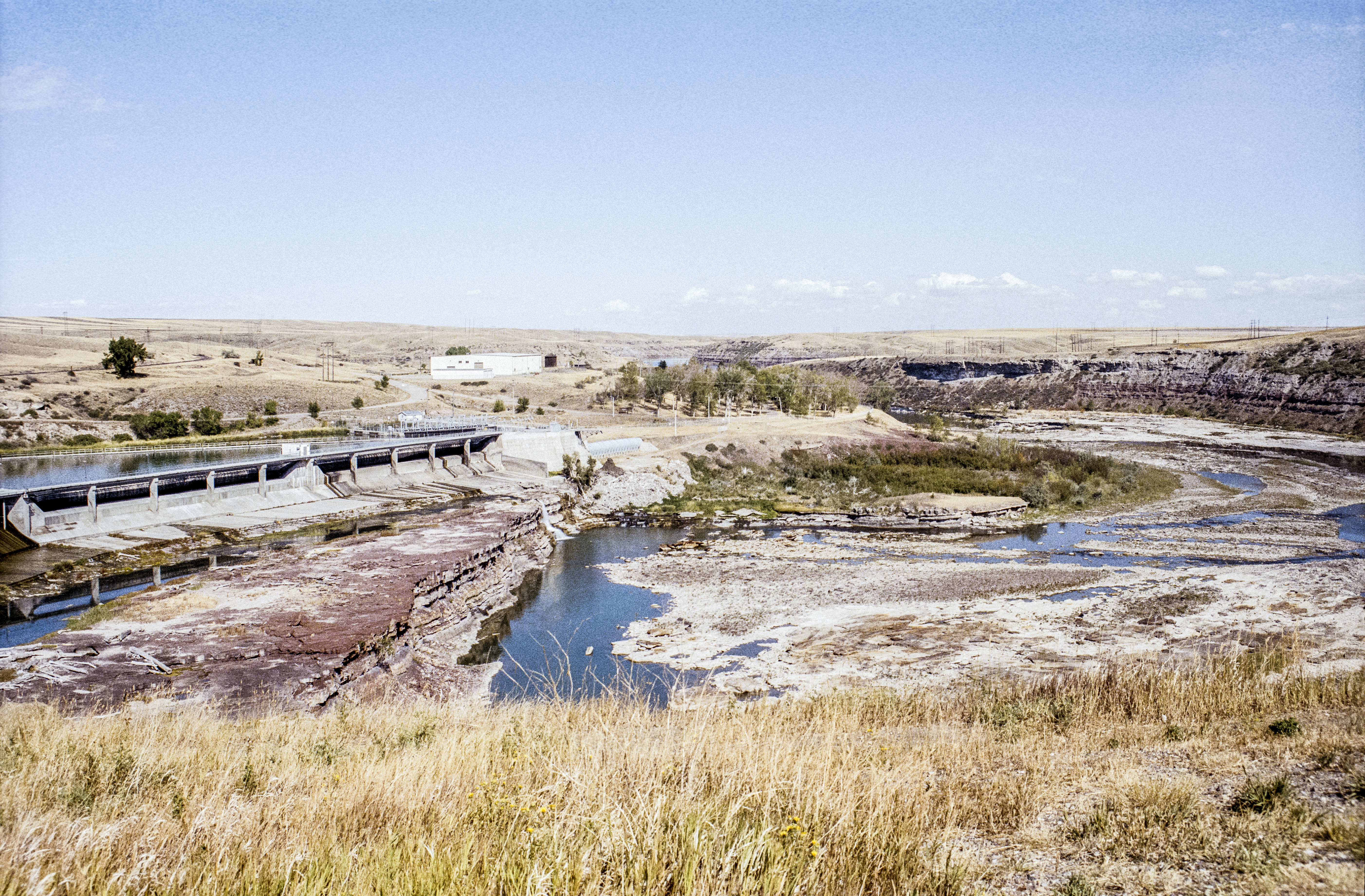 Rainbow Falls and Rainbow Dam on the Missouri River, Great Falls, Montana, USA. Scanned Fujicolor negative.